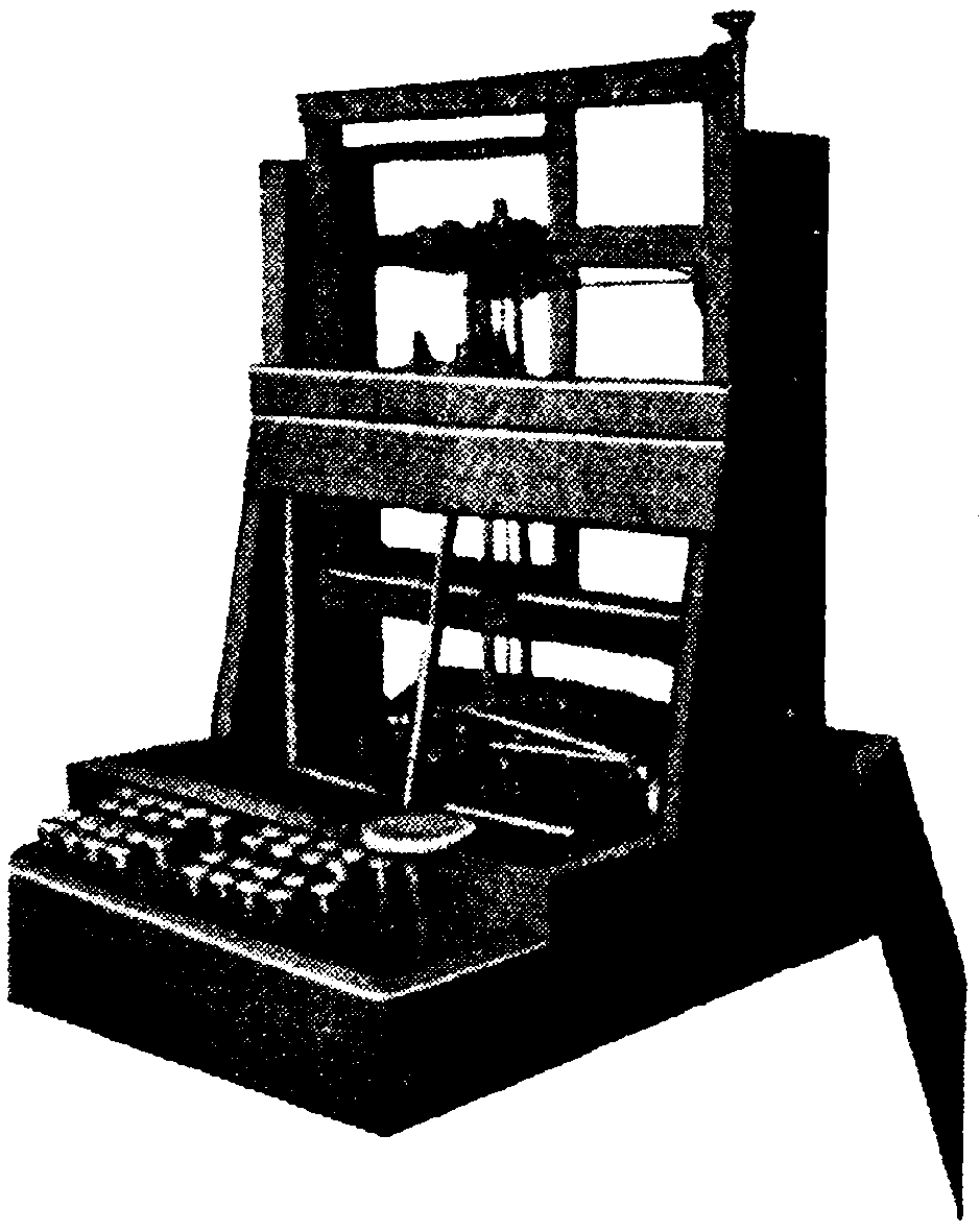 Early prototype typewriter, the Pterotype ('winged type'), built by John Pratt, an American living in England, and presented at the Society of Arts in London and the Royal Society, in 1867. An article about it in the July 6, 1867 issue of Scientific American inspired many other typewriter inventors. A unique feature of the machine was that the typefaces were on a 'type plate', which was moved horizontally and vertically by the keys, and a hammer struck the paper from behind, driving it against the type. Pratt received British letter patent no.3163 on Dec. 1, 1866 and US Letter Patent No. 81000 on Aug. 11, 1868. Unable to develop it commercially, Pratt sold the rights to James Bartlett Hammond, and many of it's features were incorporated in the Hammond typewriter. For more information see Appleton's Annual Cyclopedia for 1890, p.809